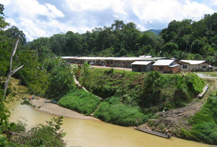 Author: Aron Paul 2005 Uploaded for use under Creative Commons 2005. This photograph is of Rumah Ugat, in the Kapit Division of Sarawak, Borneo.